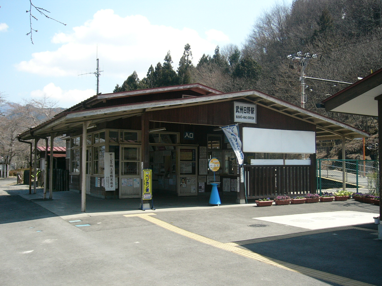 Bushu-Hino Station on the Chichibu Main Line in Saitama Prefecture Japan